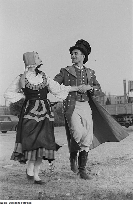 Original image description from the Deutsche Fotothek Tanzpaar